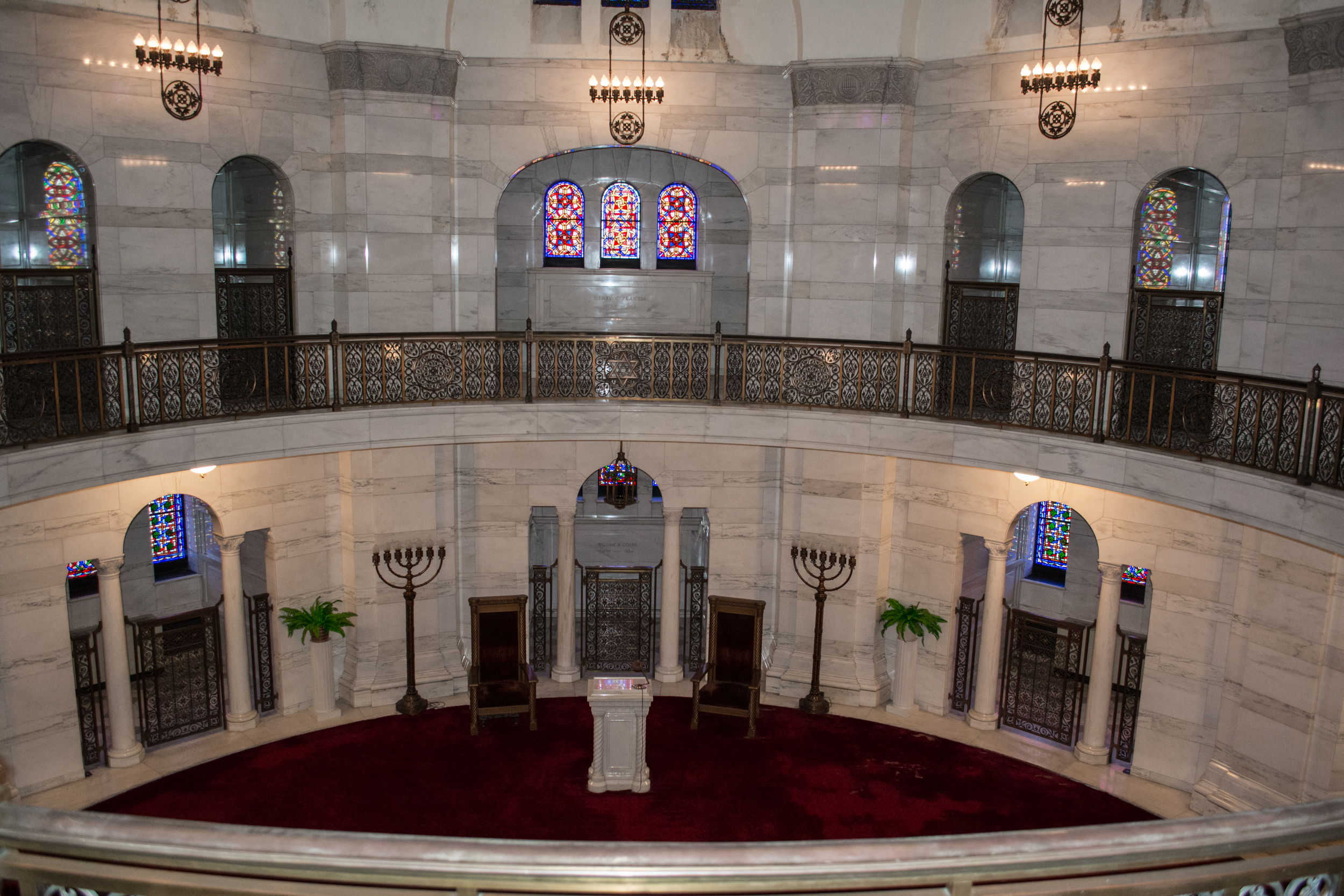 Standing on the mezzanine, looking down at the chapel in the mausoleum at Mayfield Cemetery in Cleveland Heights, Ohio, in the United States.